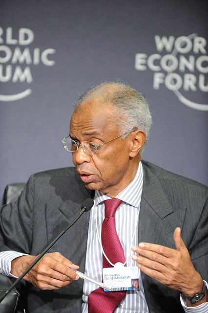 DAR ES SALAAM/TANZANIA, 5MAY10 - Ahmedou Ould-Abdallah (UN Special Representative for Somalia, United Nations Political Office For Somalia (UNPOS), Nairobi) at the World Economic Forum on Africa held in Dar es Salaam, Tanzania, May 5, 2010.